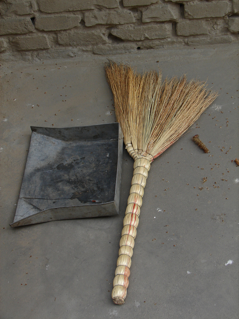 A Chinese broom and sweeping tool, found in Yuncheng, China.